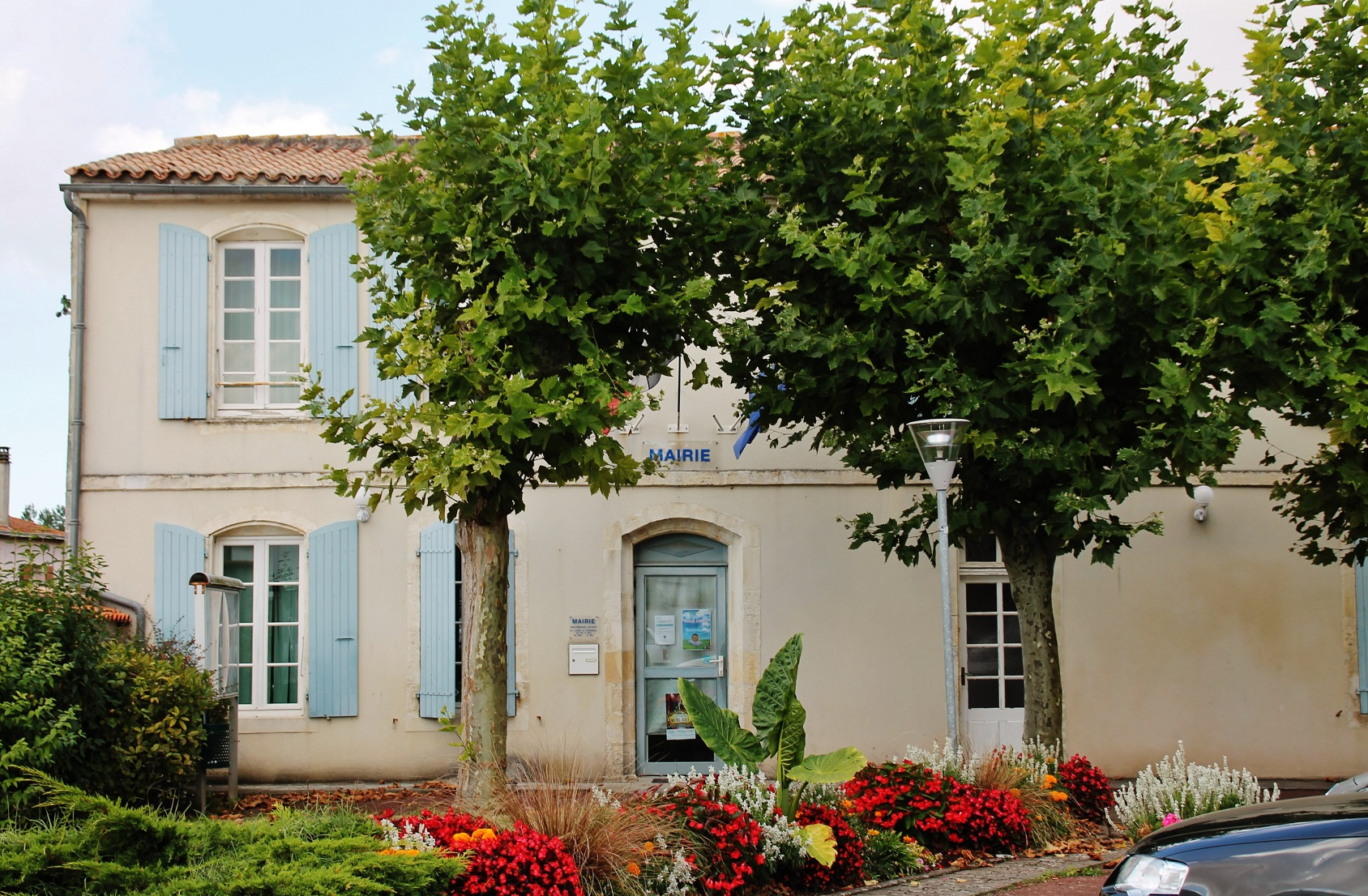 La Mairie